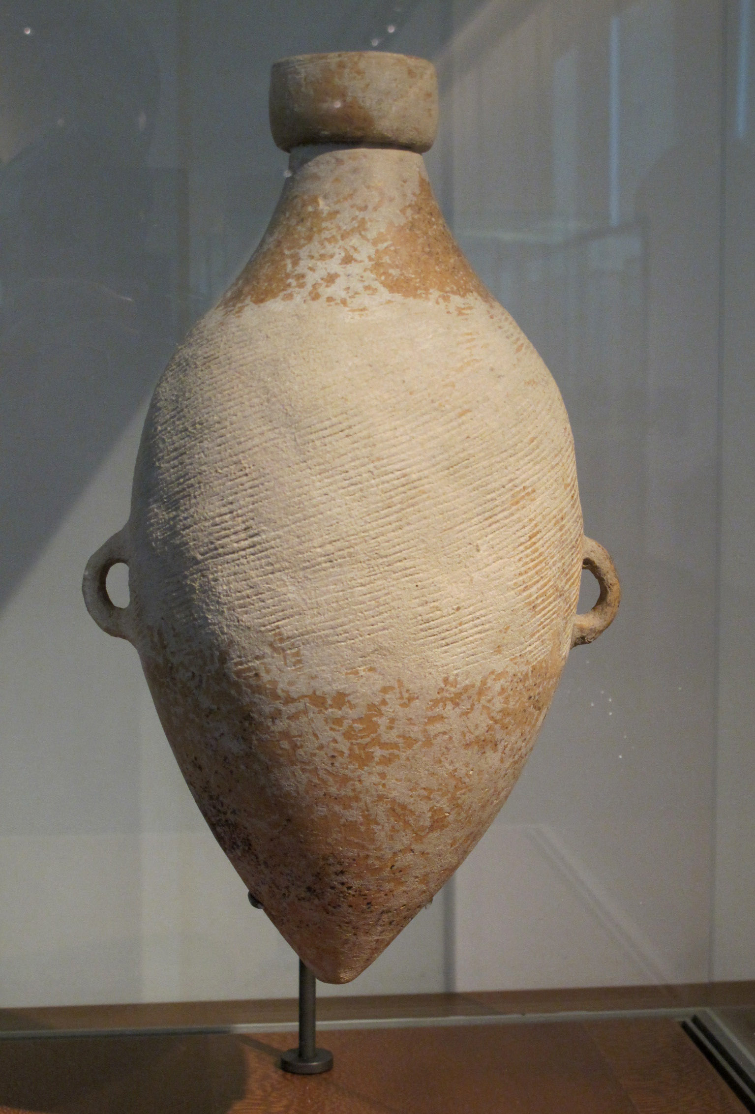 Yangshao hemp-cordmarked Amphora, Banpo Phase 4800 BCE, Shaanxi. Photographed at the Musee Guimet